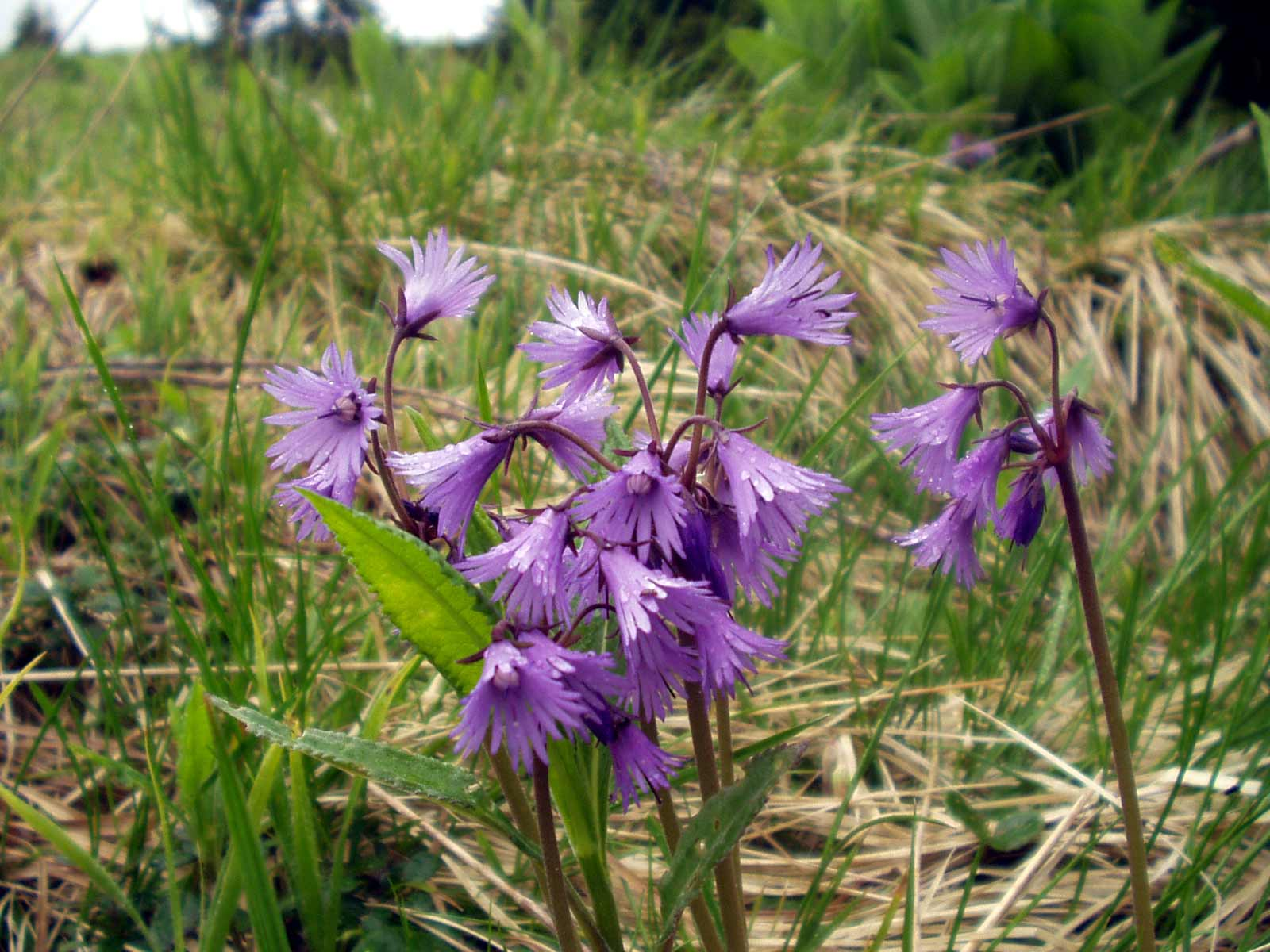 Soldanella alpina, growing on Stuhleck, Niederösterreich, Austria